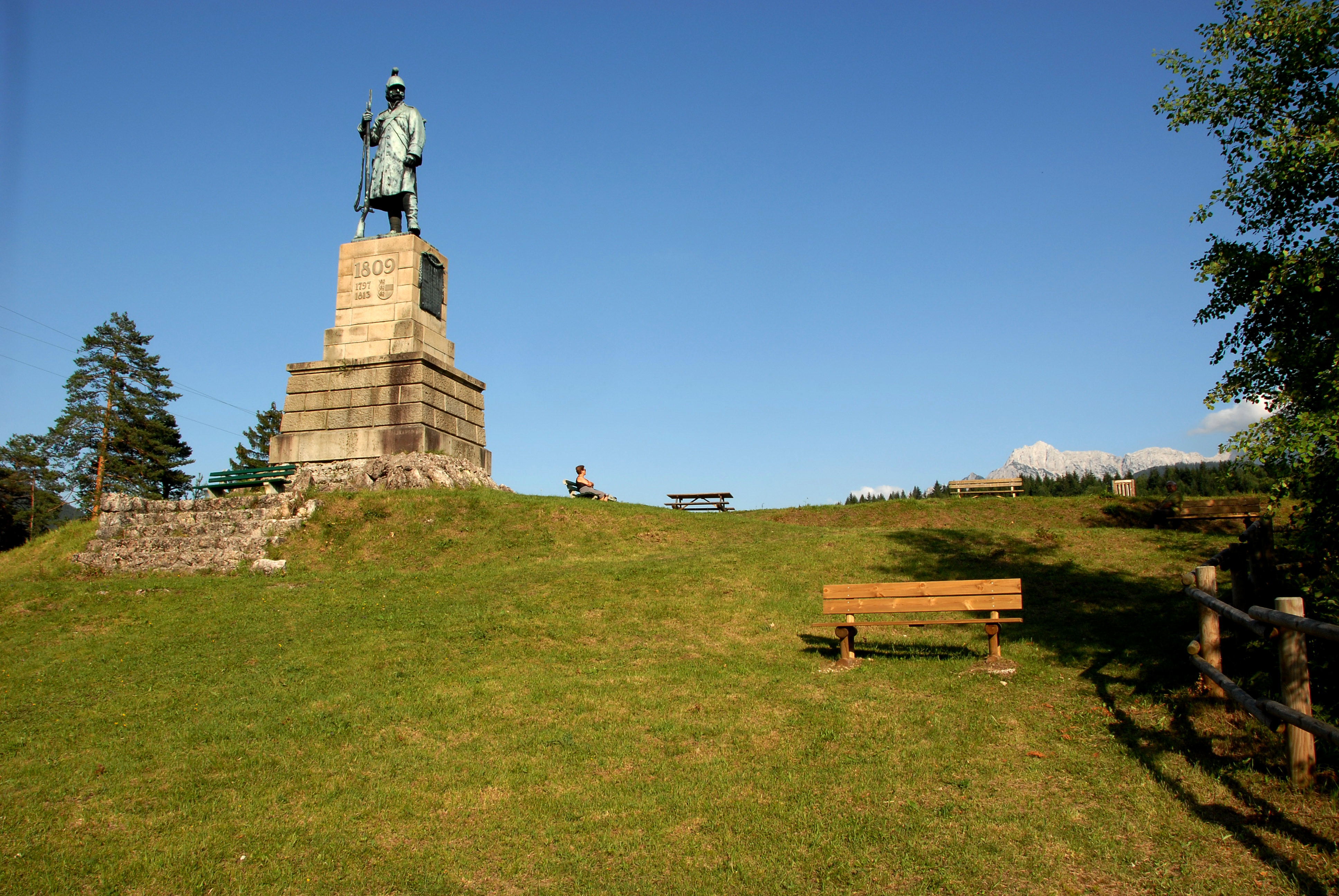 Austrian-era war monument celebrating the defeat of Napoloeon in the Wars against Austria in 1797, 1809 and 1813, standing at the district of Boscoverde in the Municipality of Tarvisio, region Friuli Venezia-Giulia, Italy.